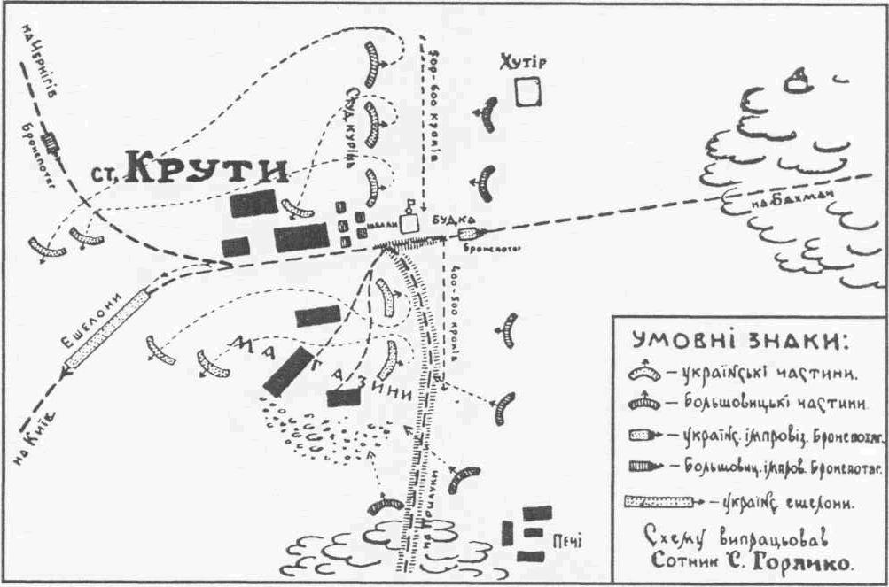 Map of the Battle of Kruty.